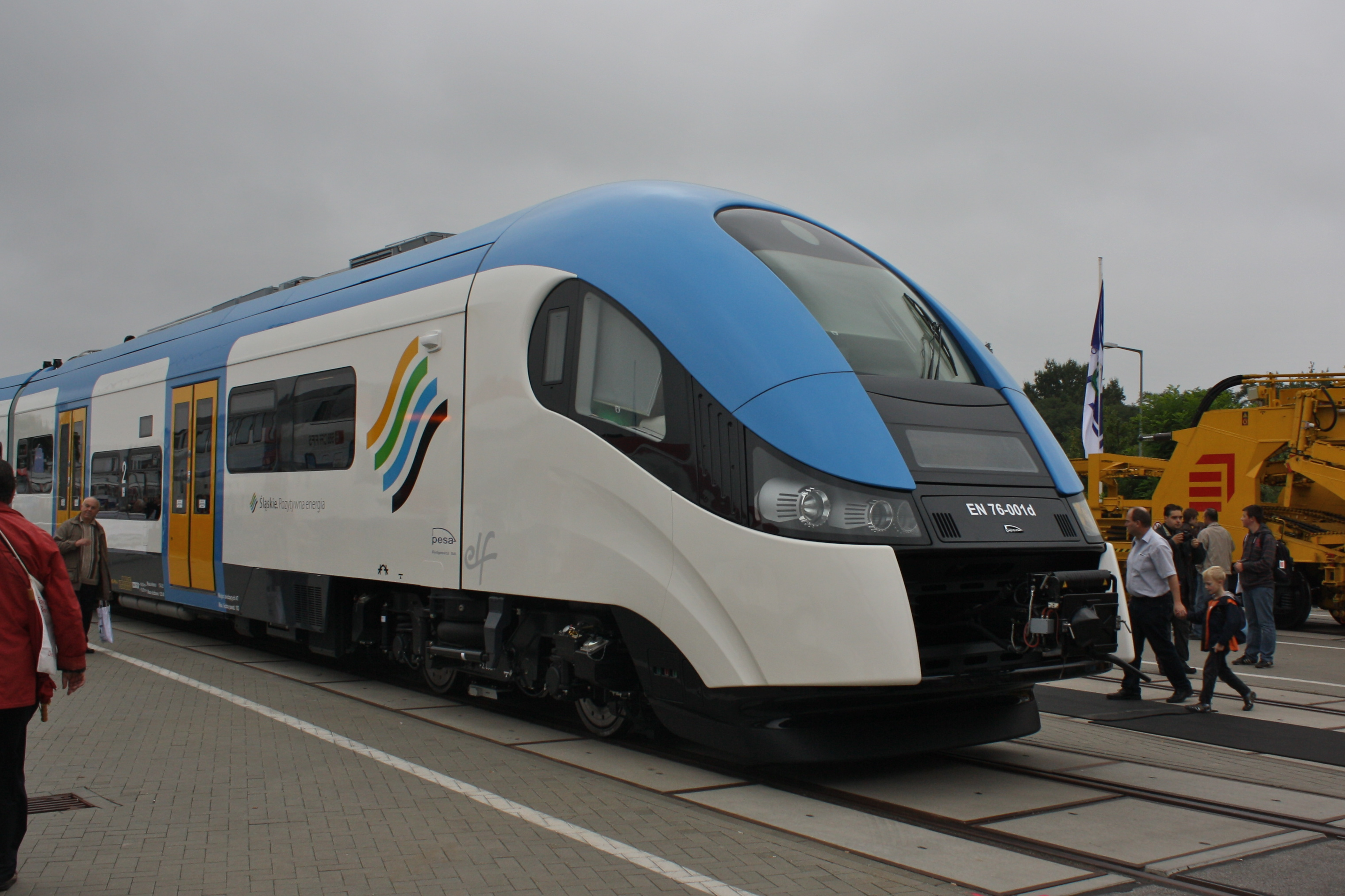 Prime presentation of PESA ELF